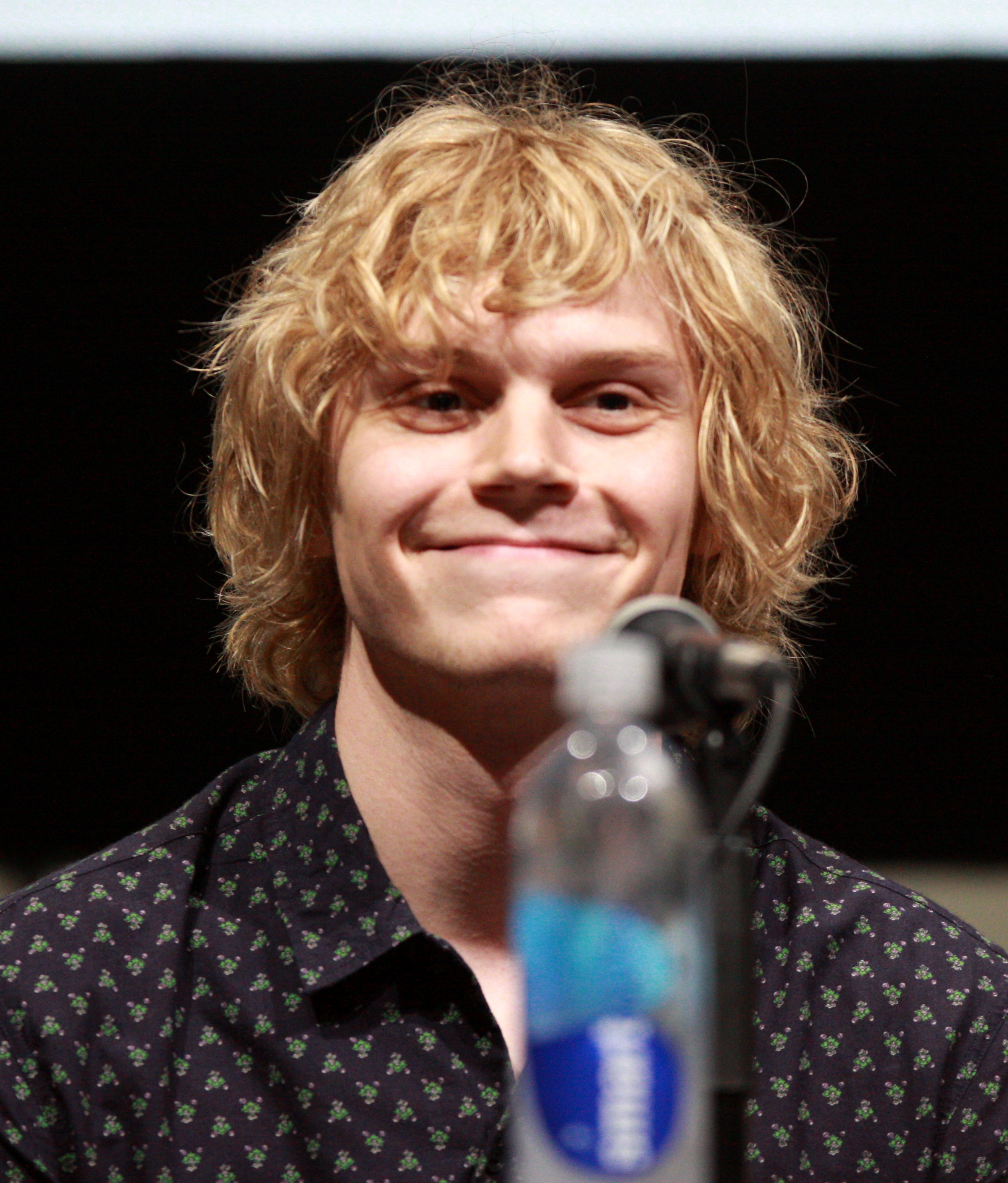 Evan Peters at the 2013 San Diego Comic Con International in San Diego, California.